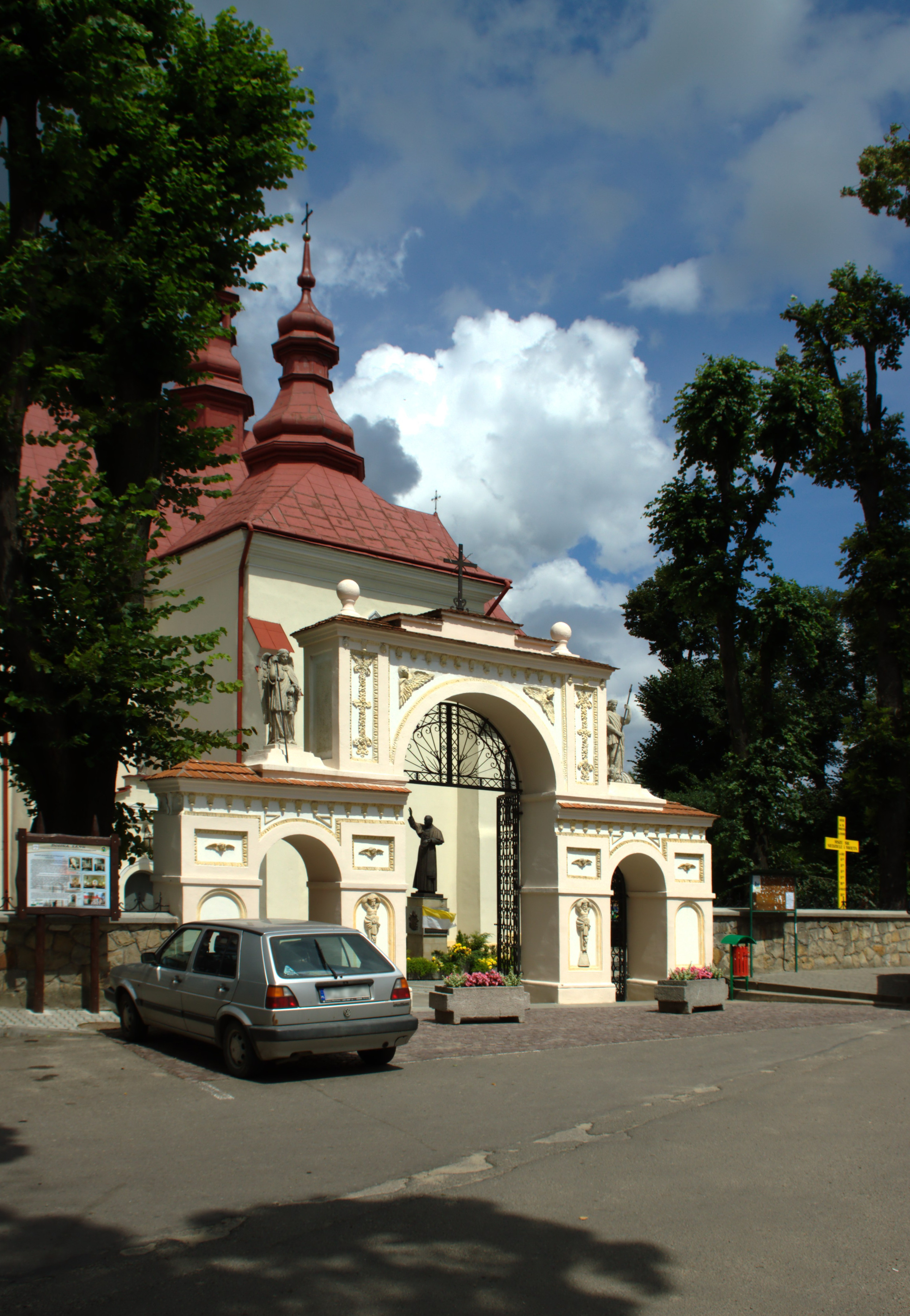 The gate to the area of the church of St. Lawrence in Dynów, Poland